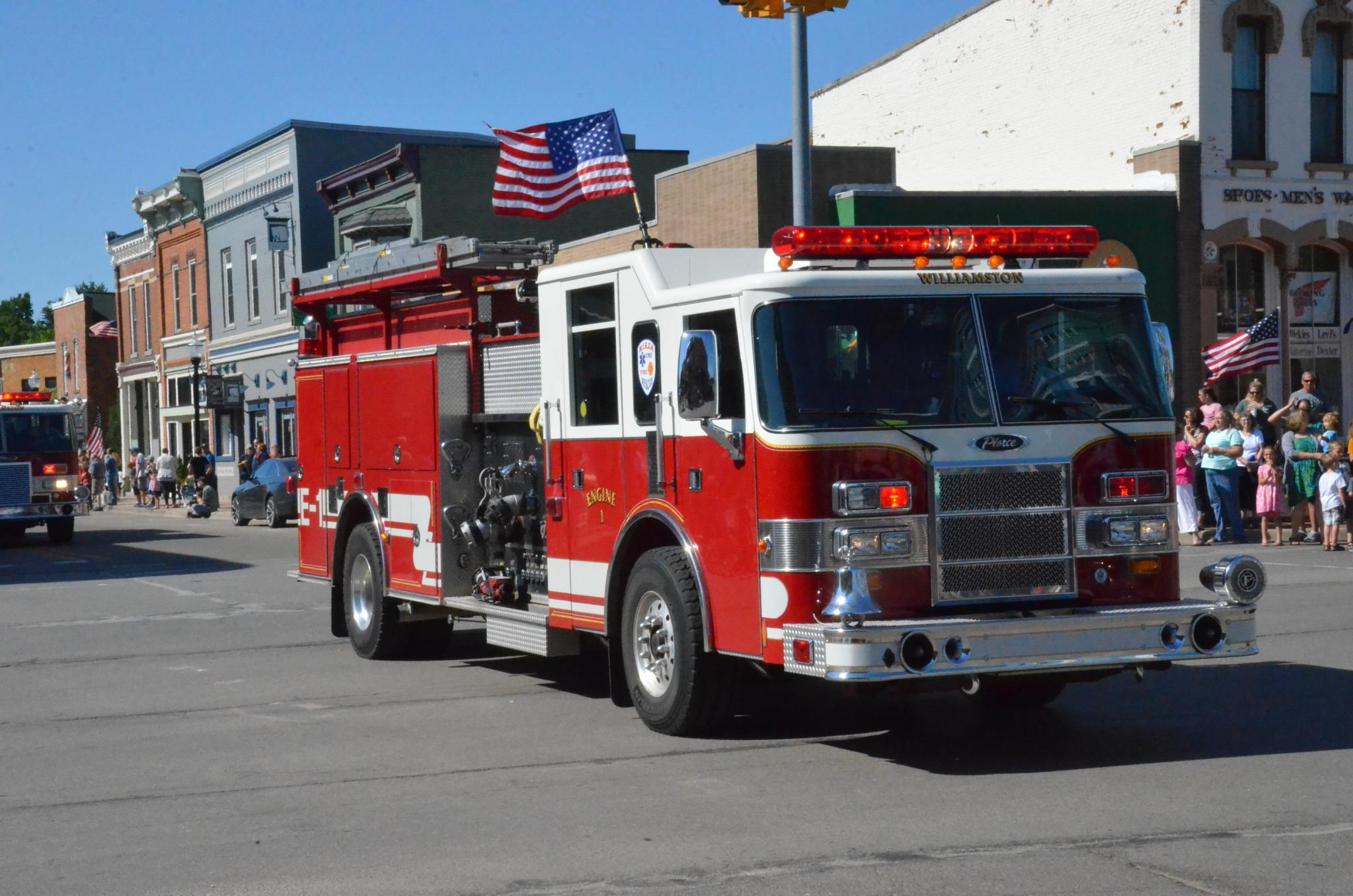 Williamston Fire Department fire truck. Scenes from the Memorial Day parade and memorial program in Williamston, Michigan on Monday, May 29, 2017